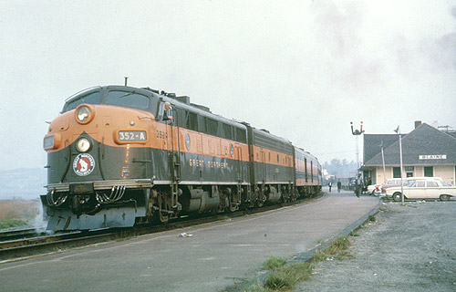 The International at Blaine station in September 1965